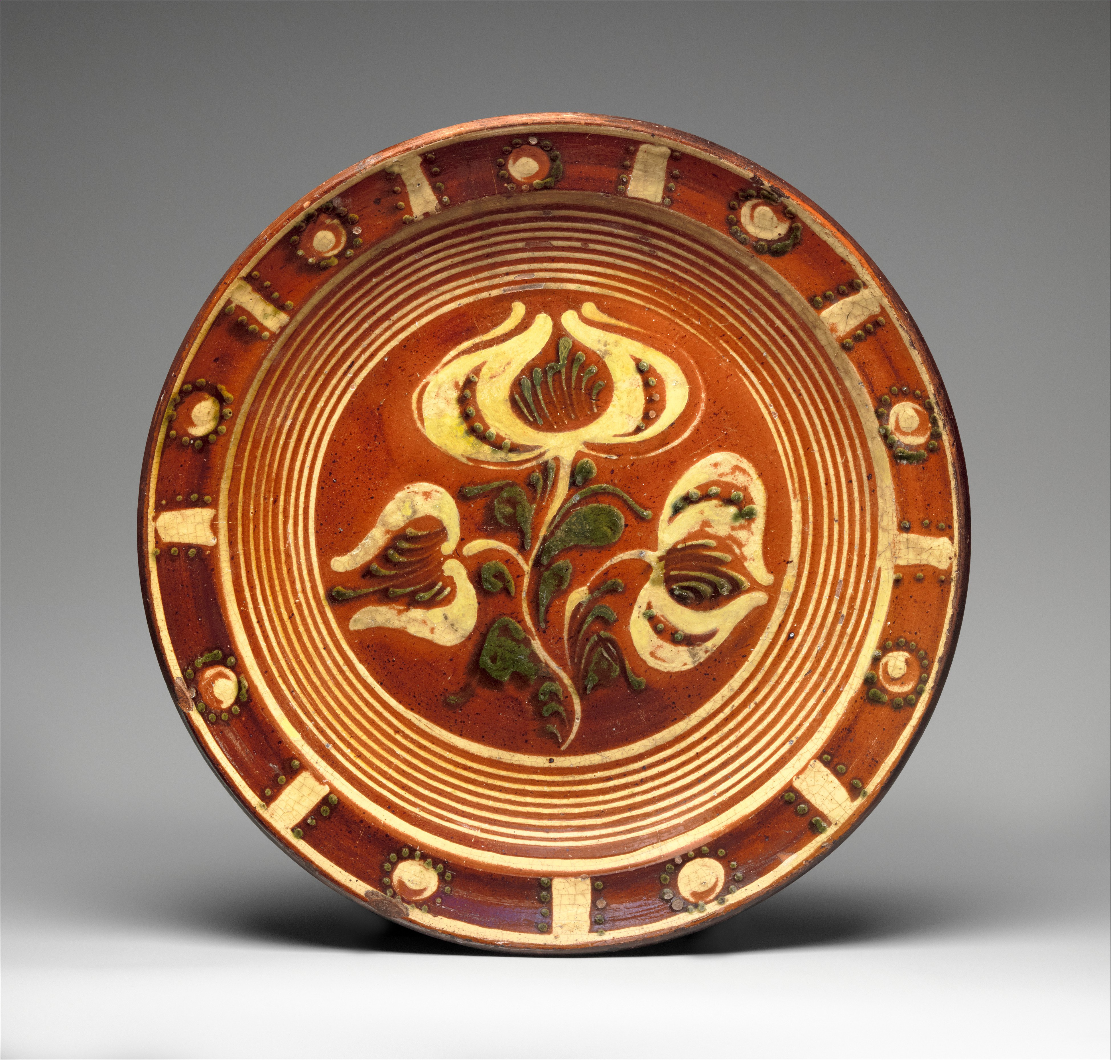 Dish; Ceramics